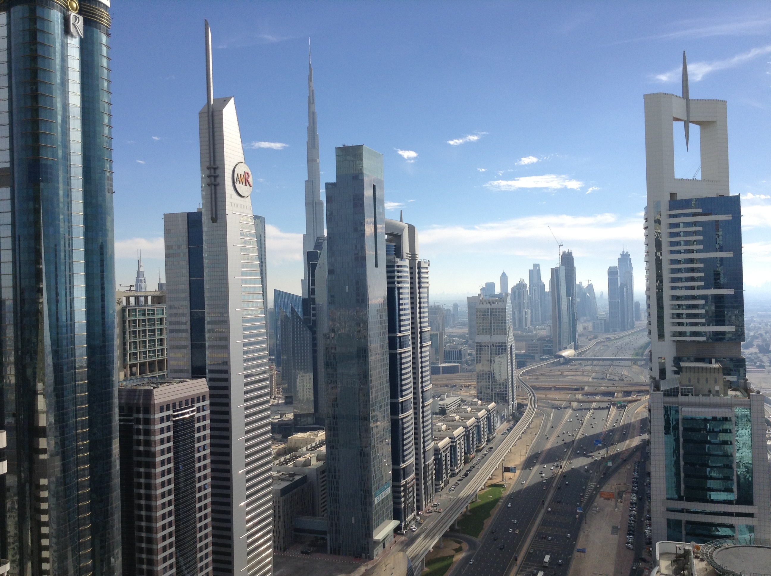 The view from the 43rd floor of the Four Points by Sheraton Hotel